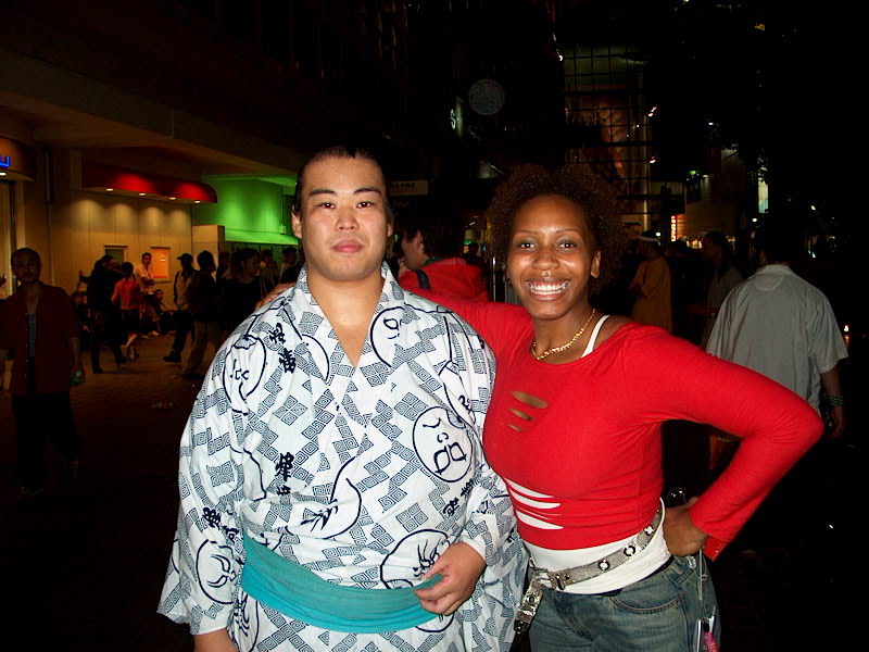 TonyaTko With A Japanese Sumo Wrestler